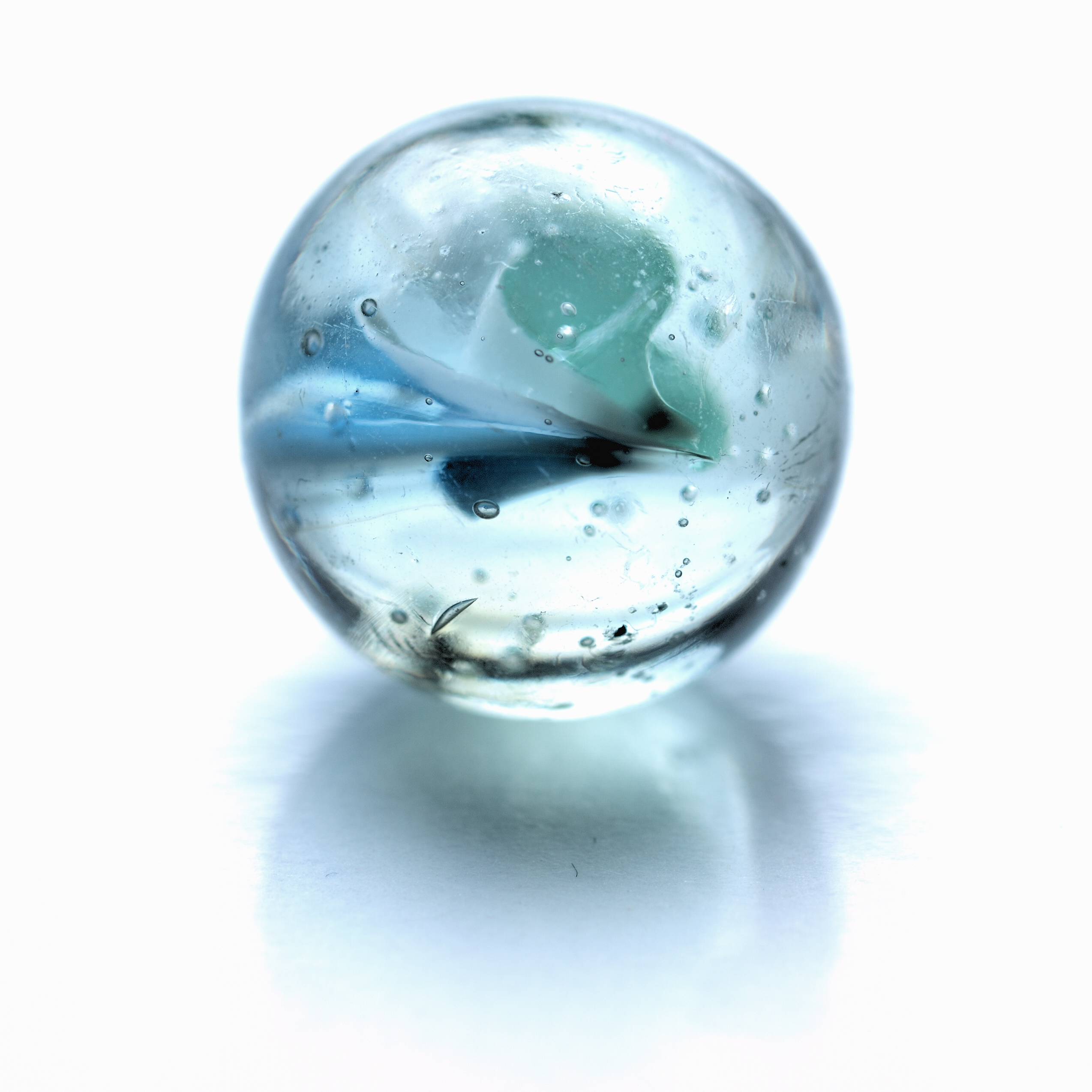 Glass marble